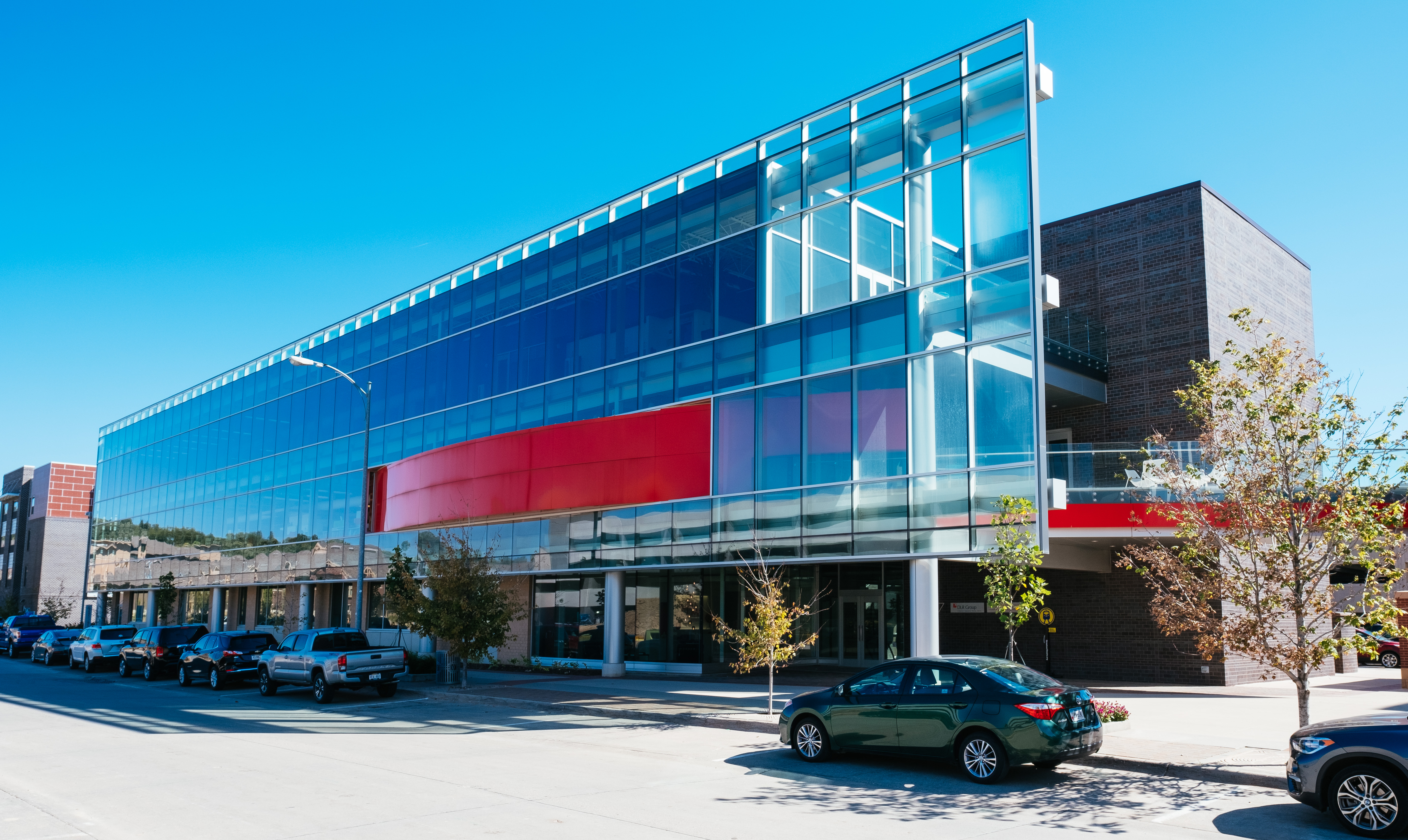 Front of DLR office in Aksarben Village, Omaha, Nebraska.